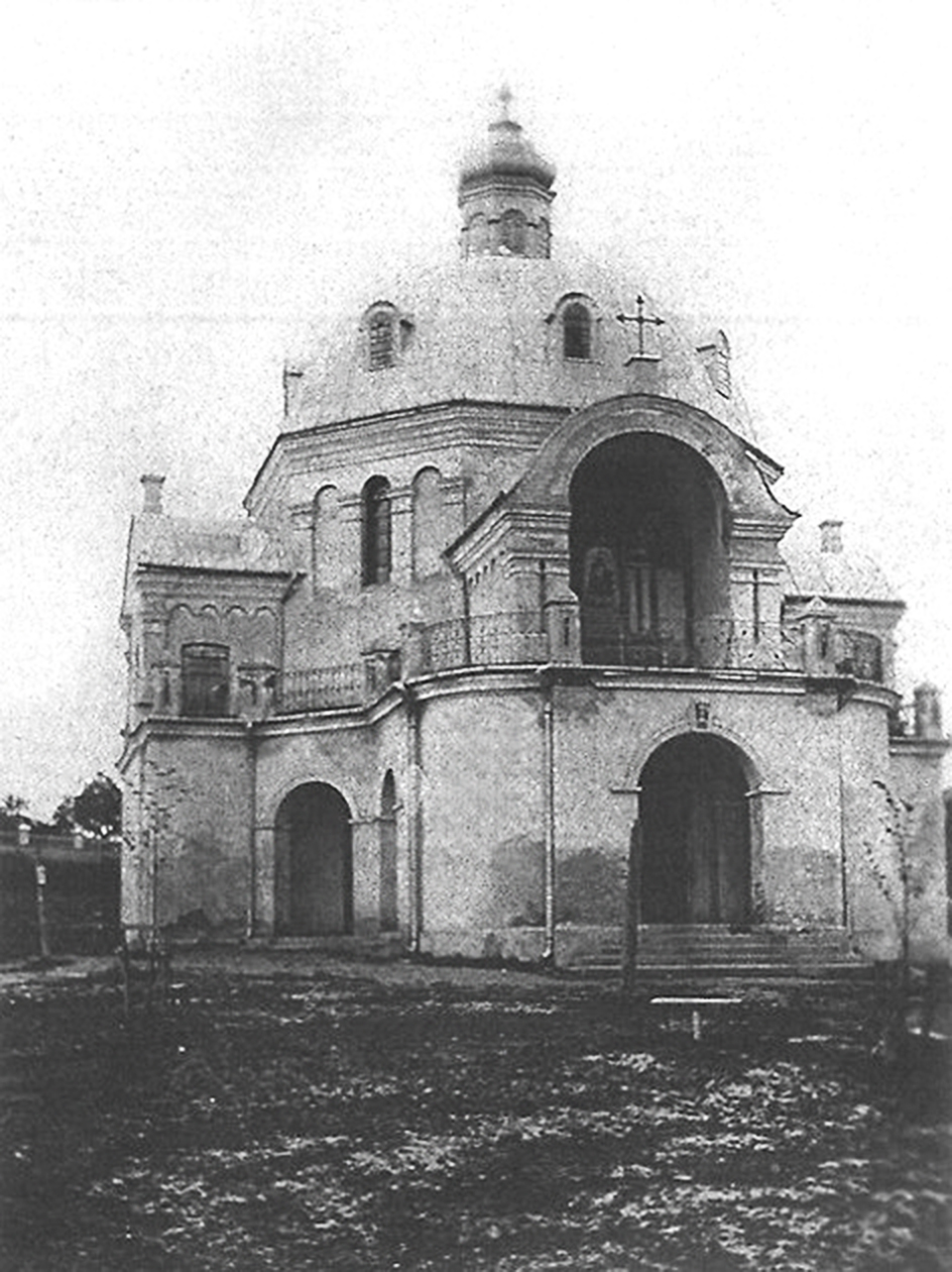 Greek Catholic church in Kalwaria Pacławska from 1913. Destroyed in 1957